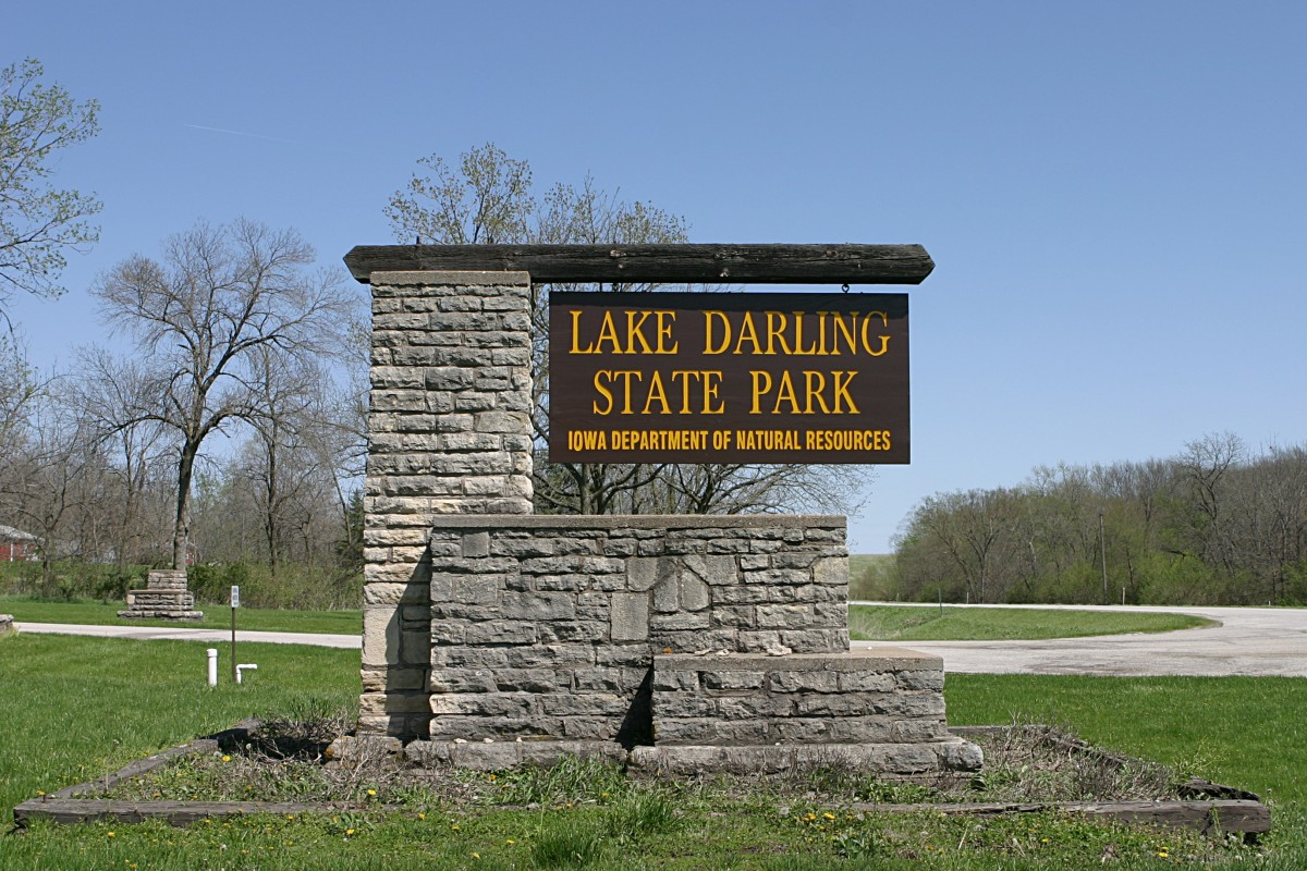 Entrance sign for Lake Darling State Park in Iowa.